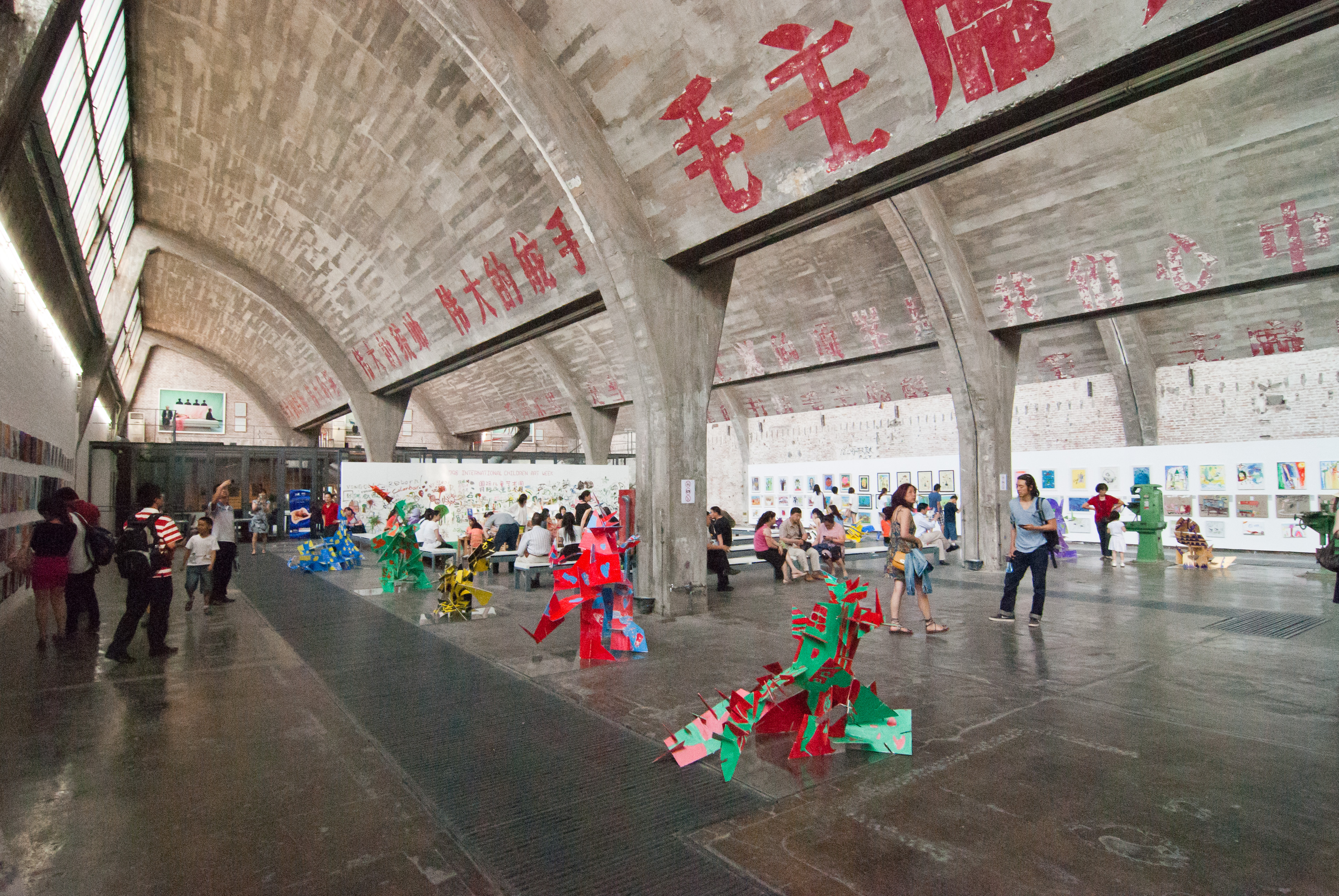 798 Space gallery at the art district of Beijing